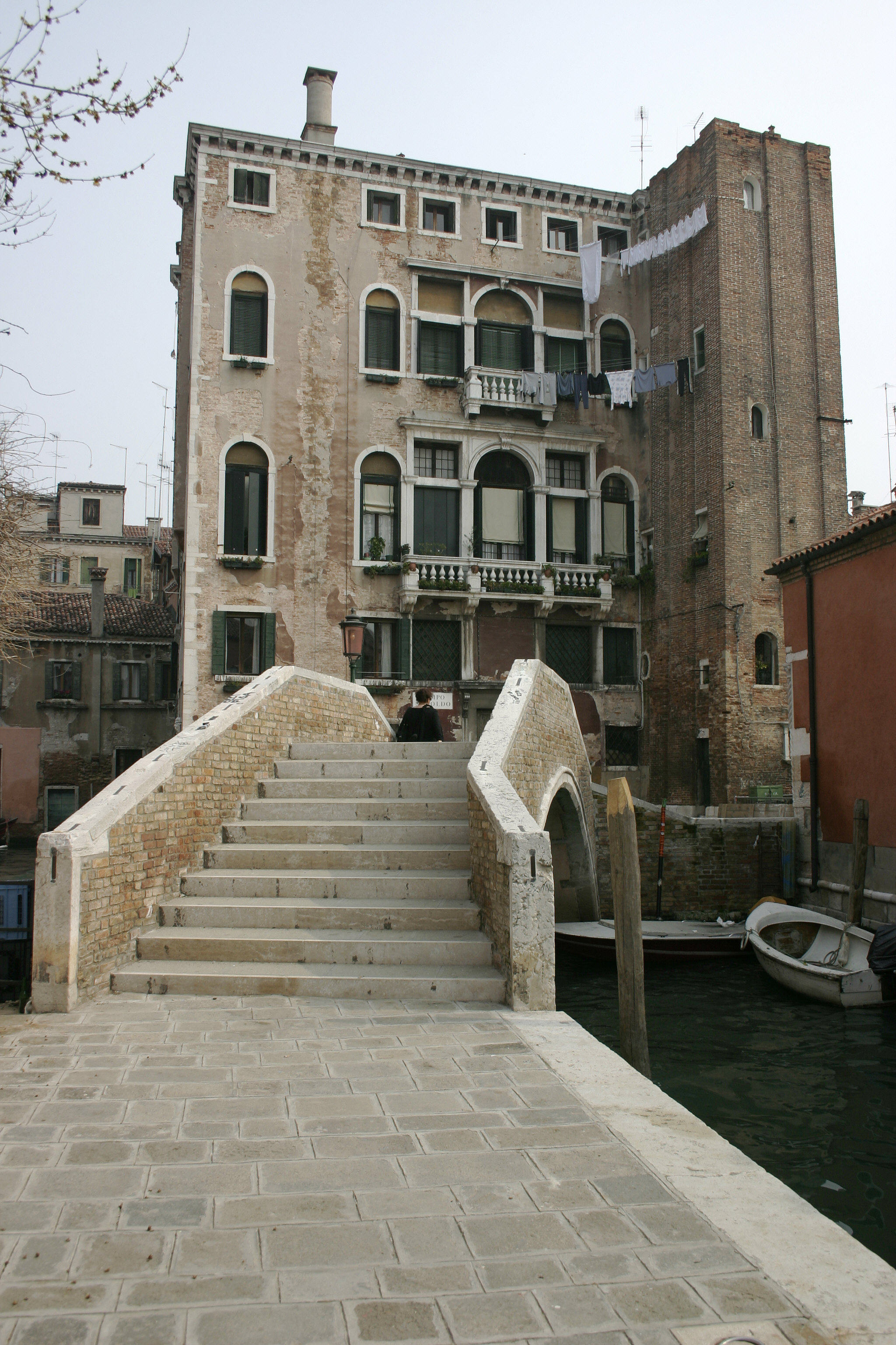 Venice - Ponte S. Boldo - Grioni's Palace